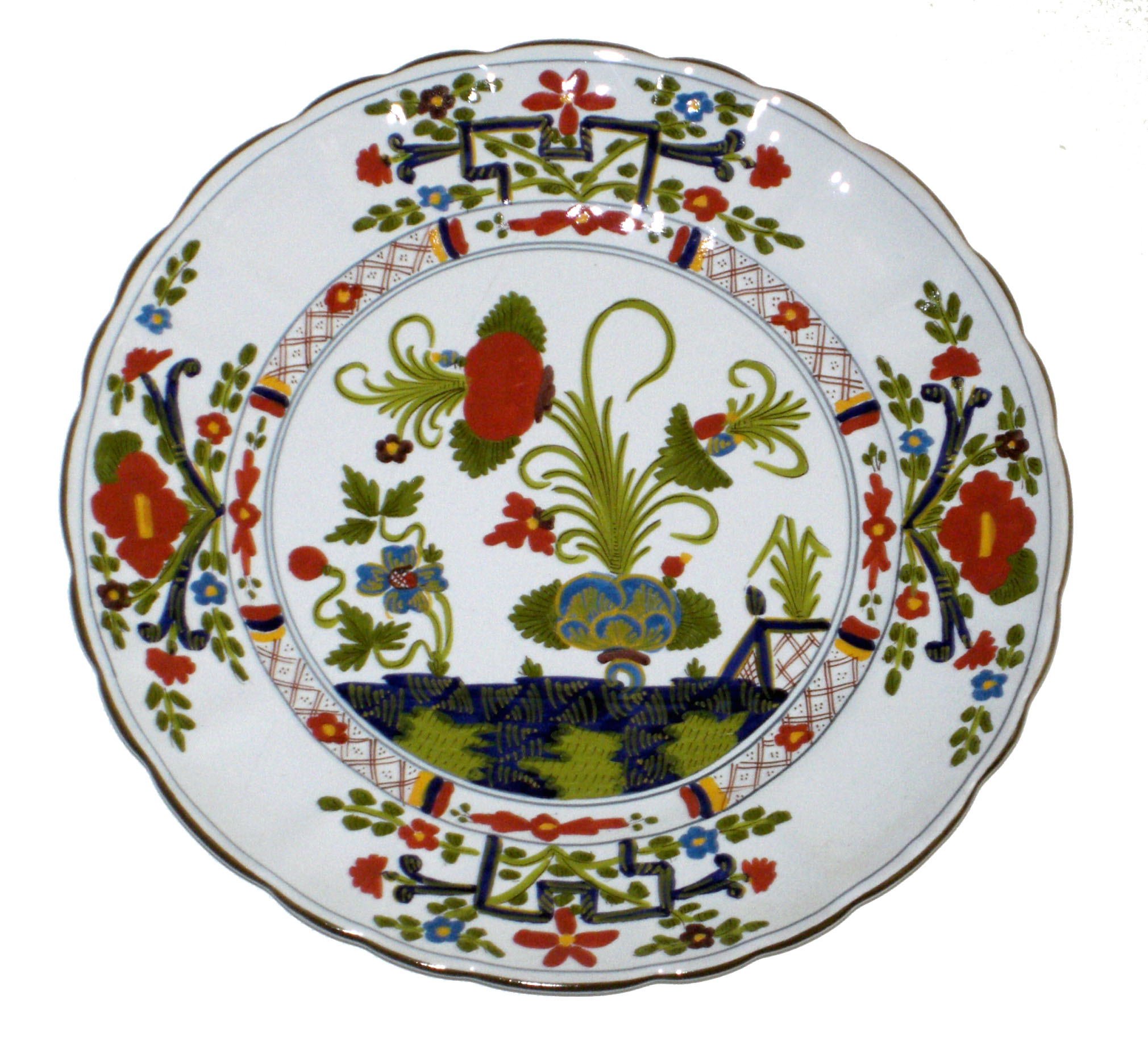 Ceramics (Majolica) plate from the Italian city of Faenza decorated with the style of the "Garofano" (carnation).